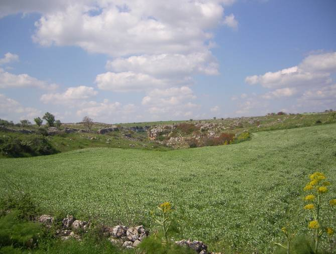 Pulo di Altamura - North North-East lama (Karst geomorphic feature found in Murge, Italy)